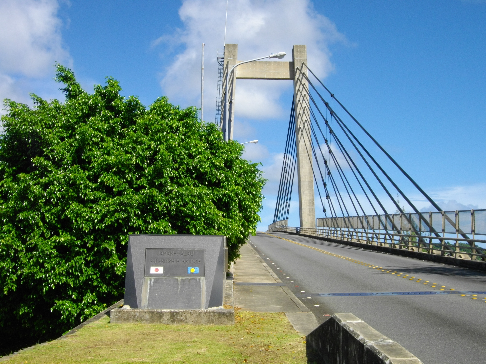 Japan-Palau Friendship Bridge